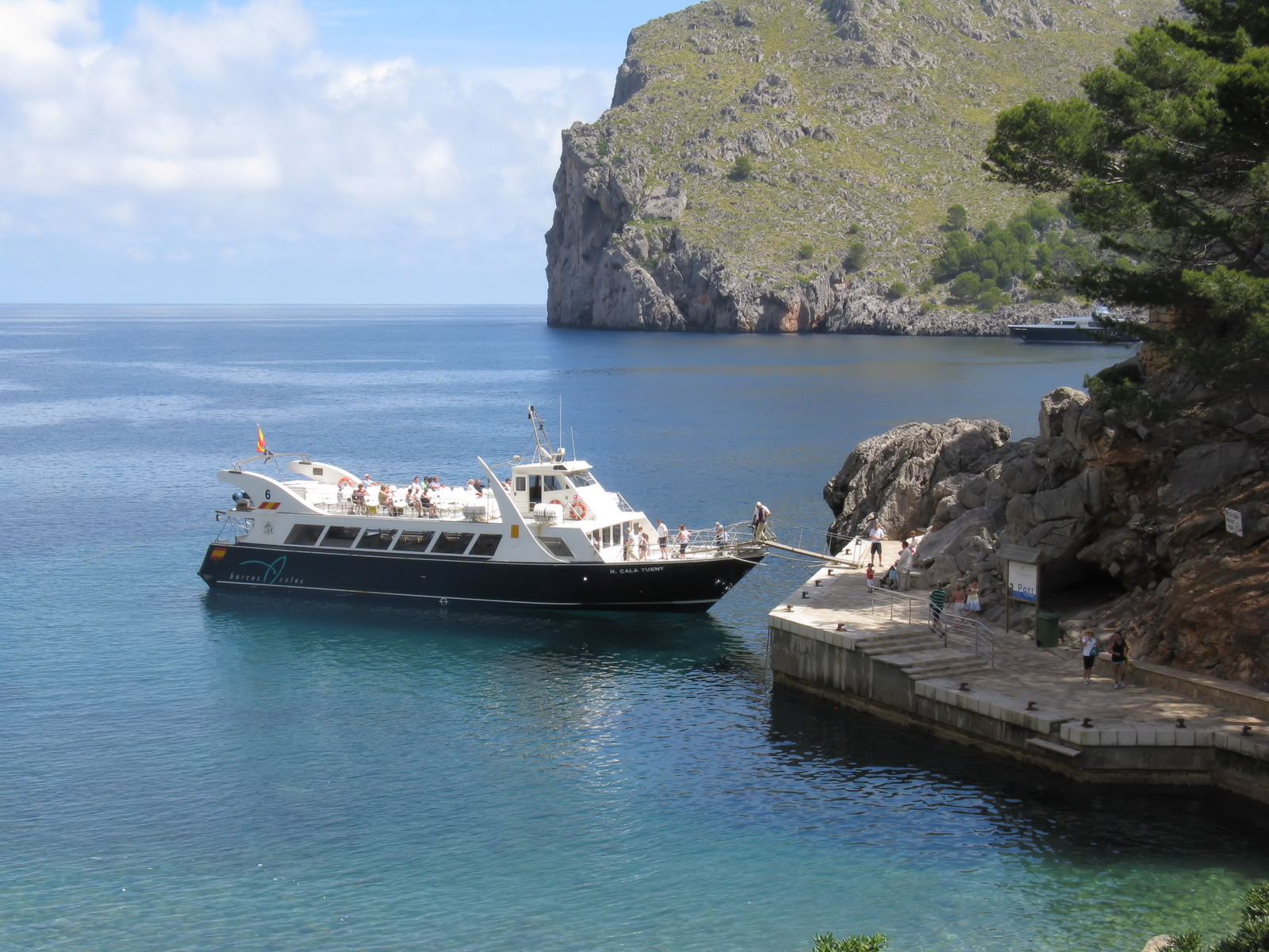 Tourist boat “N. Cala Tuent” loading passengers at Sa Calobra on the north west coast of Majorca. This boat does pleasure trips daily from Port de Soller to Sa Calobra. The attraction at Sa Calobra is the Torrent de Pareis, a river ravine running inland between cliffs and only a few metres wide in places (usually dry). There is also a small (beautiful) pebble beach approached via 2 tunnels through the cliffs, restaurants and a hotel. The road down to Sa Calobra is known for its hairpins.